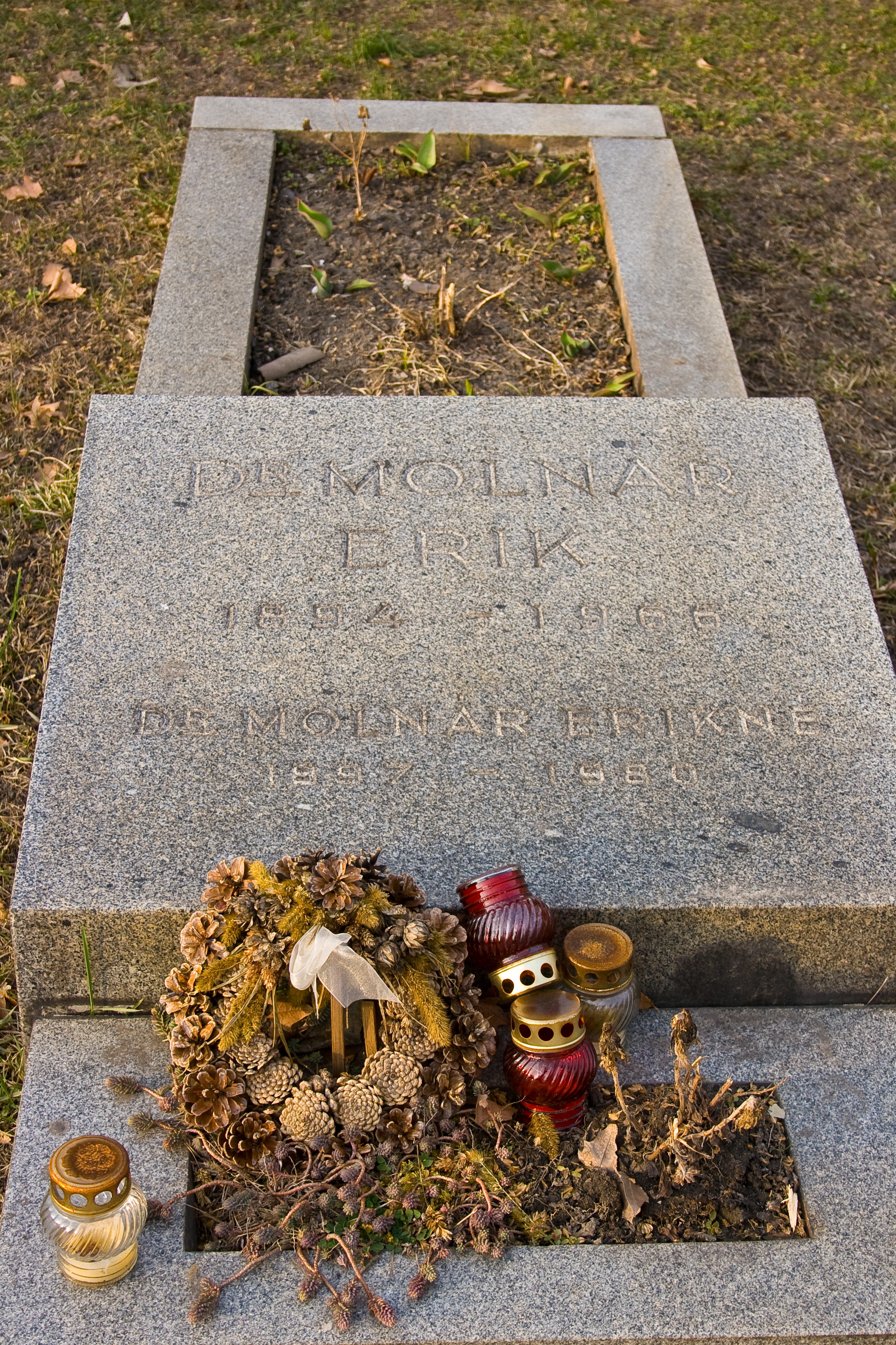 Tomb of Erik Molnár in Kerepesi Cemetery